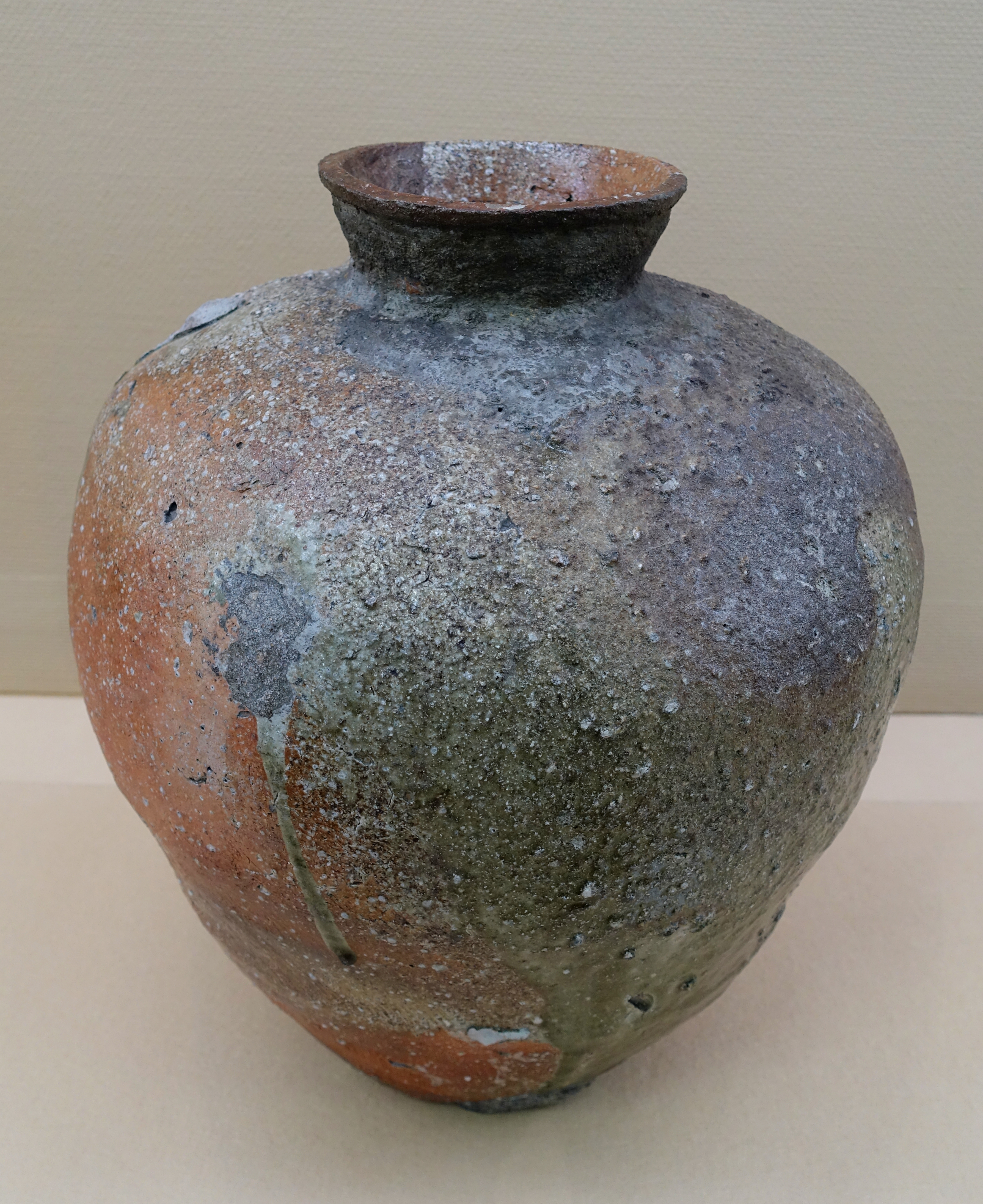 Exhibit in the Hakone Museum of Art - Hakone, Kanagawa, Japan.